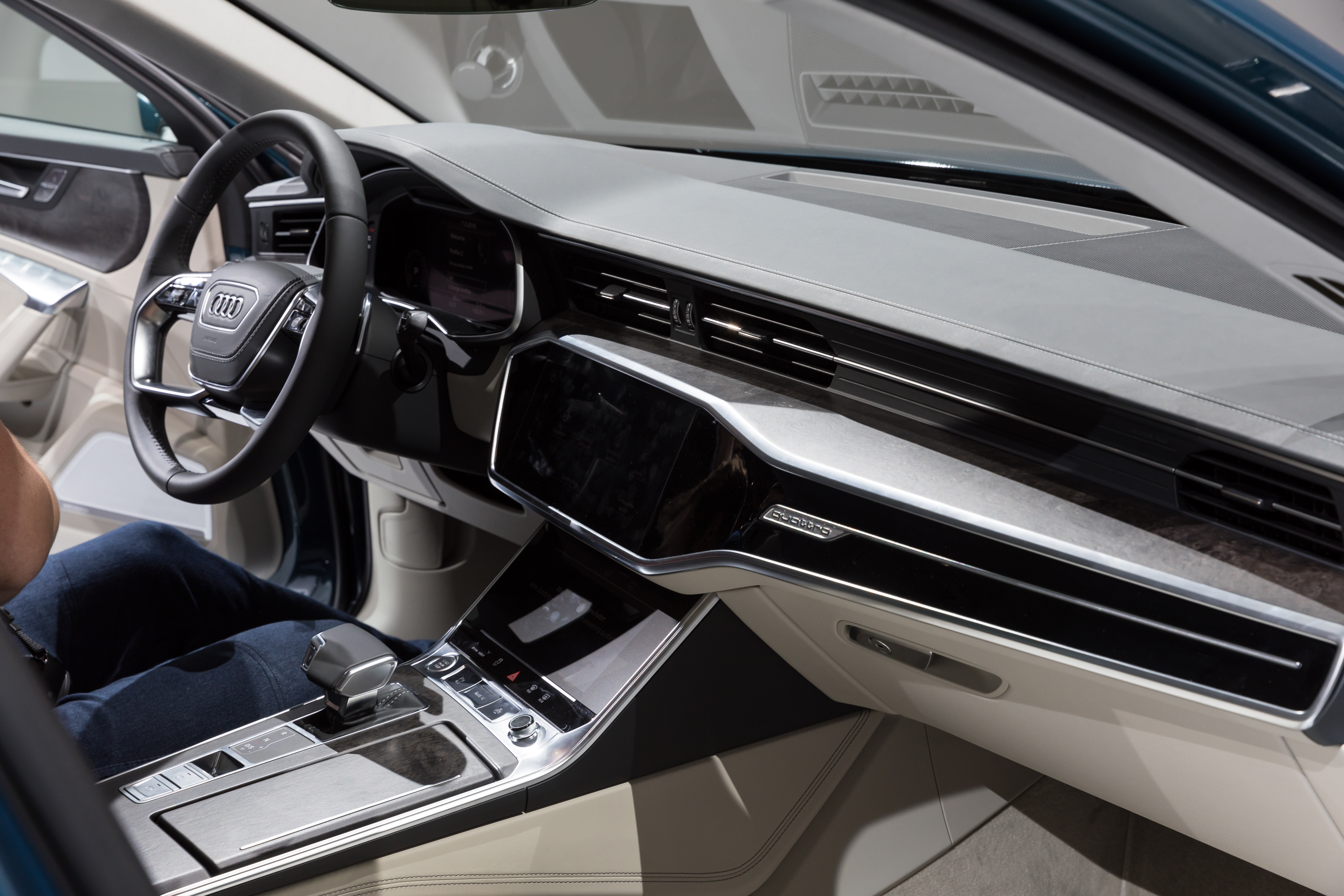 Geneva International Motor Show 2018